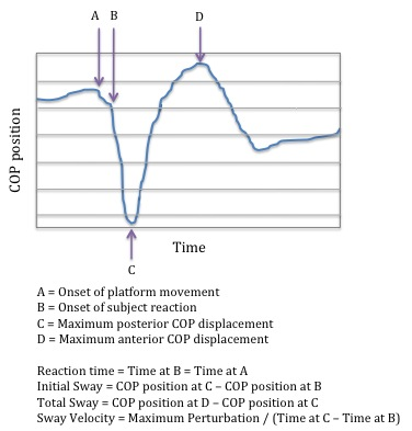 Adapted from: J.L. McCrory, Chambers, A.J., Daftary, A., Redfern, M.S., 2010. Dynamic postural stability during advancing pregnancy. Journal of Biomechanics. 43, 2434-2439.